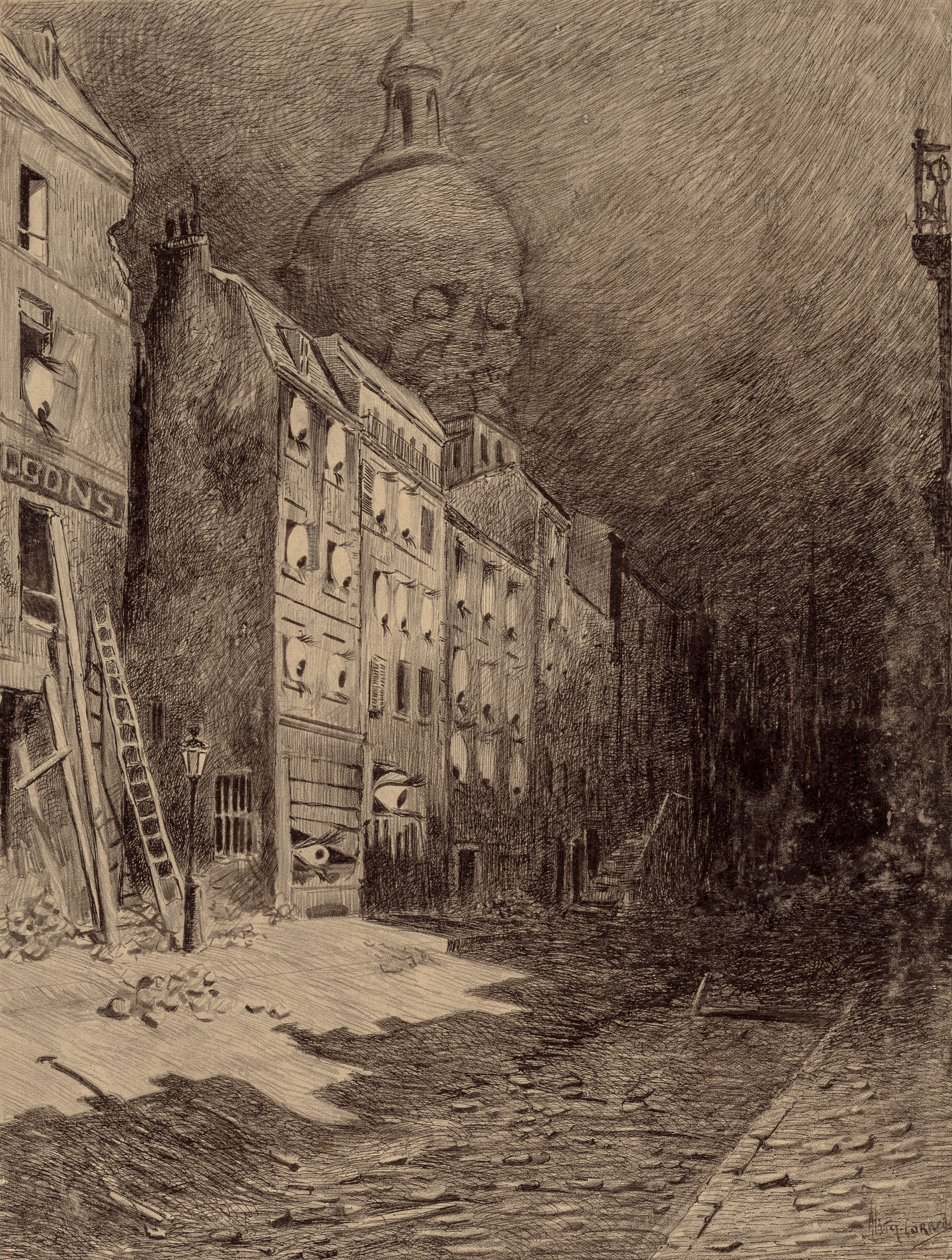 Illustration by Henrique Alvim Corrêa, from the 1906 Belgium (French language) edition of H.G. Wells' "The War of the Worlds", 1906. A scan from the orginal graphic. Orginal caption / oryginalny opis